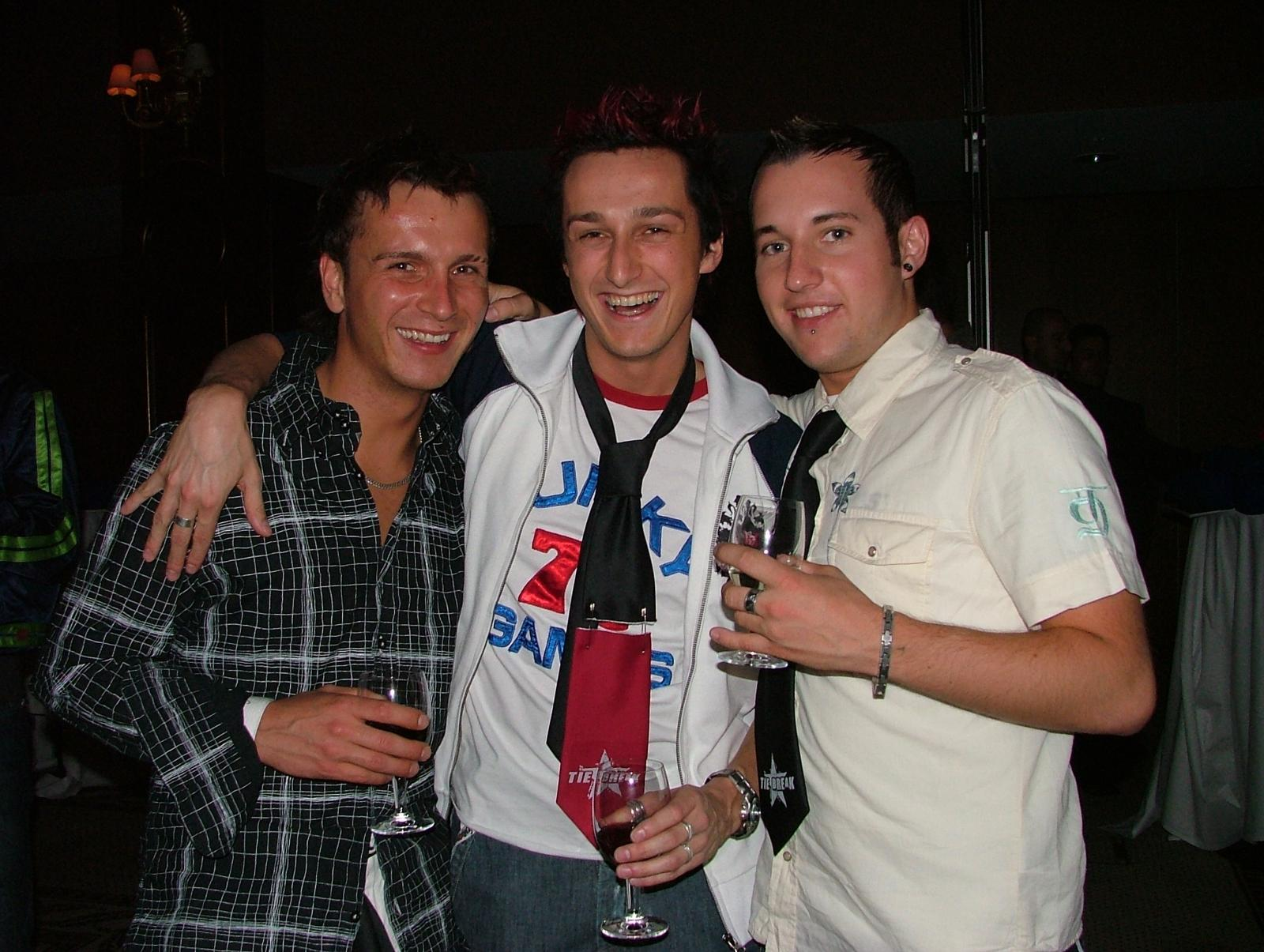 Tie Break